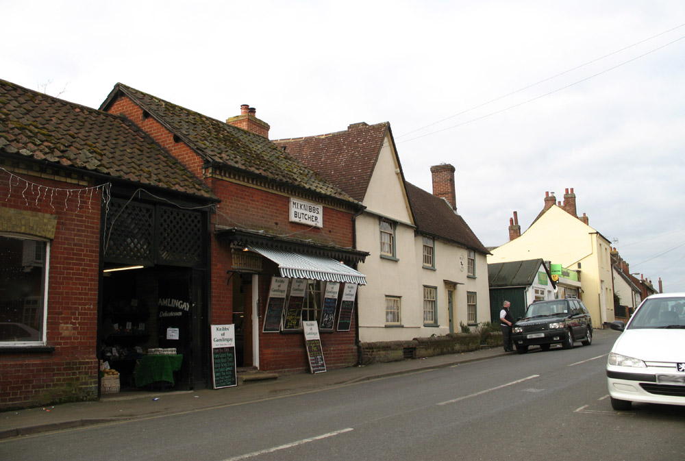 M. I. Knibbs' butcher's shop on Church Street, Gamlingay, Cambridgeshire